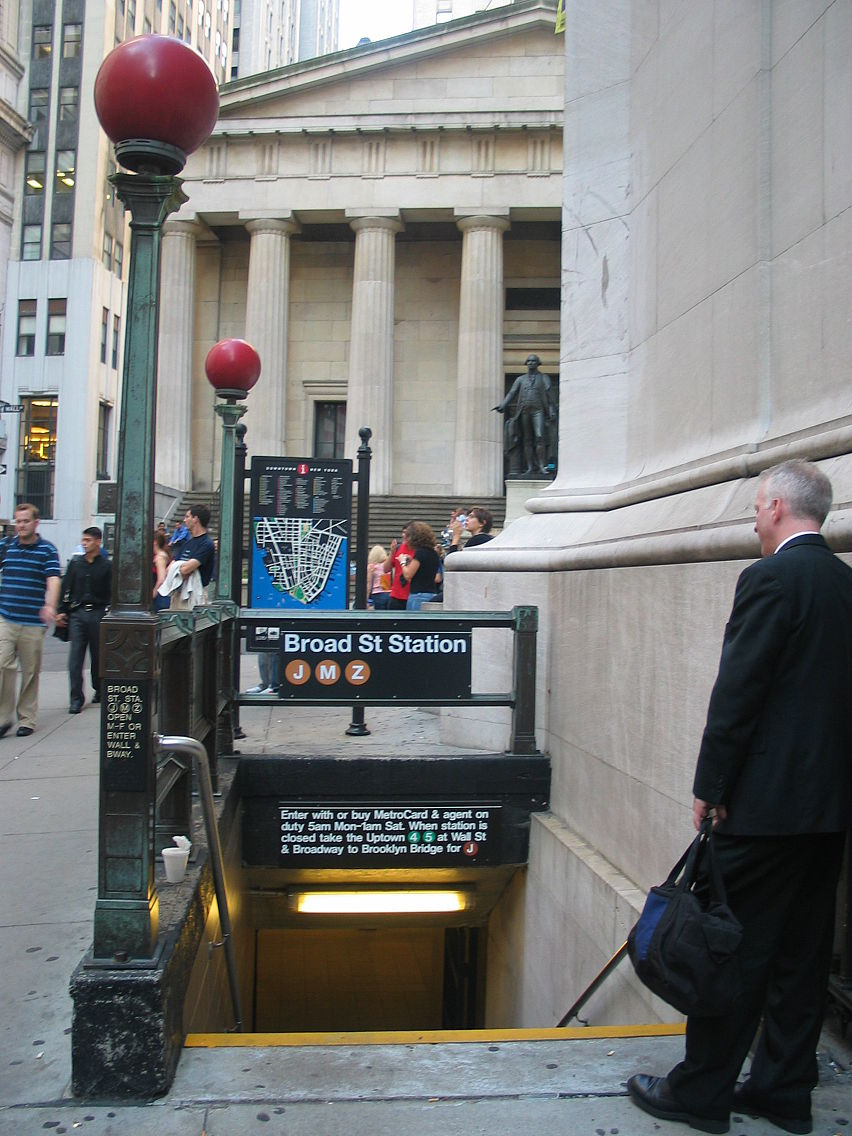 Broad Street Station entrance opposite of the New York Stock Exchange at the corner of Wall Street. Federal Hall in the background.